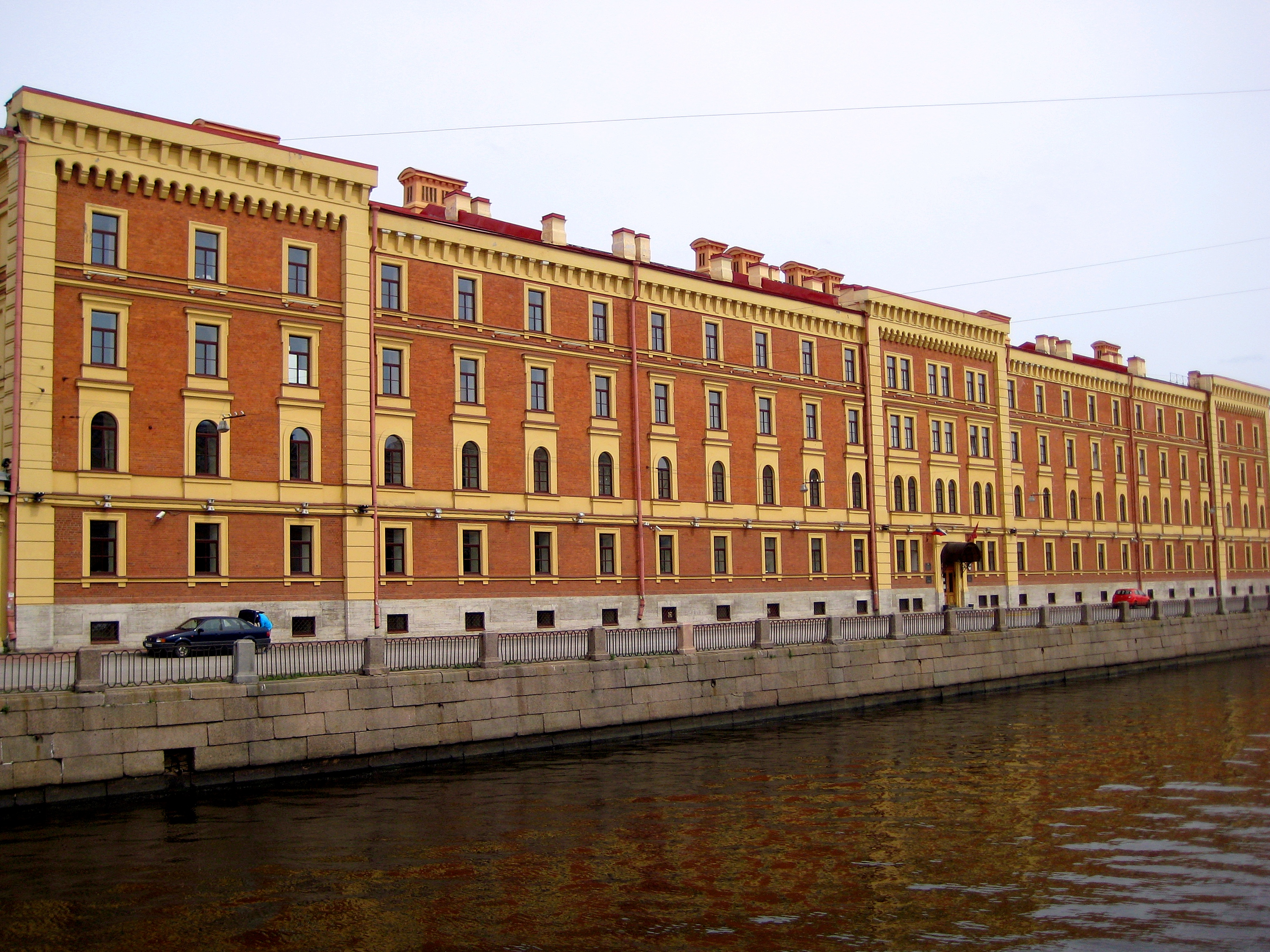 Barracks for drill mouths with two gates: embankment of the Griboedov Canal, 133, Admiralteysky District, St. Petersburg